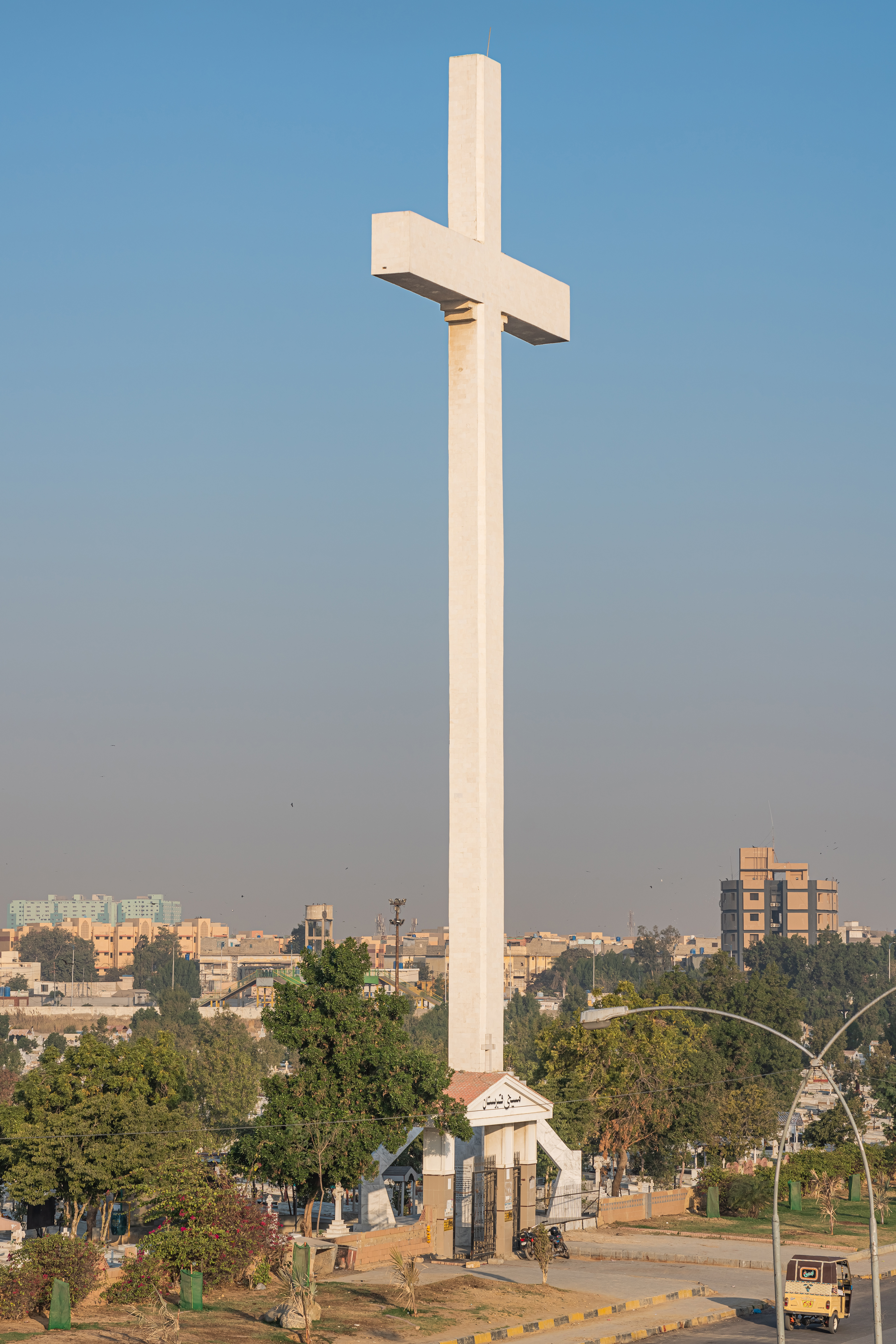 Gora Cemetery (or European Cemetery) in Karachi, Pakistan